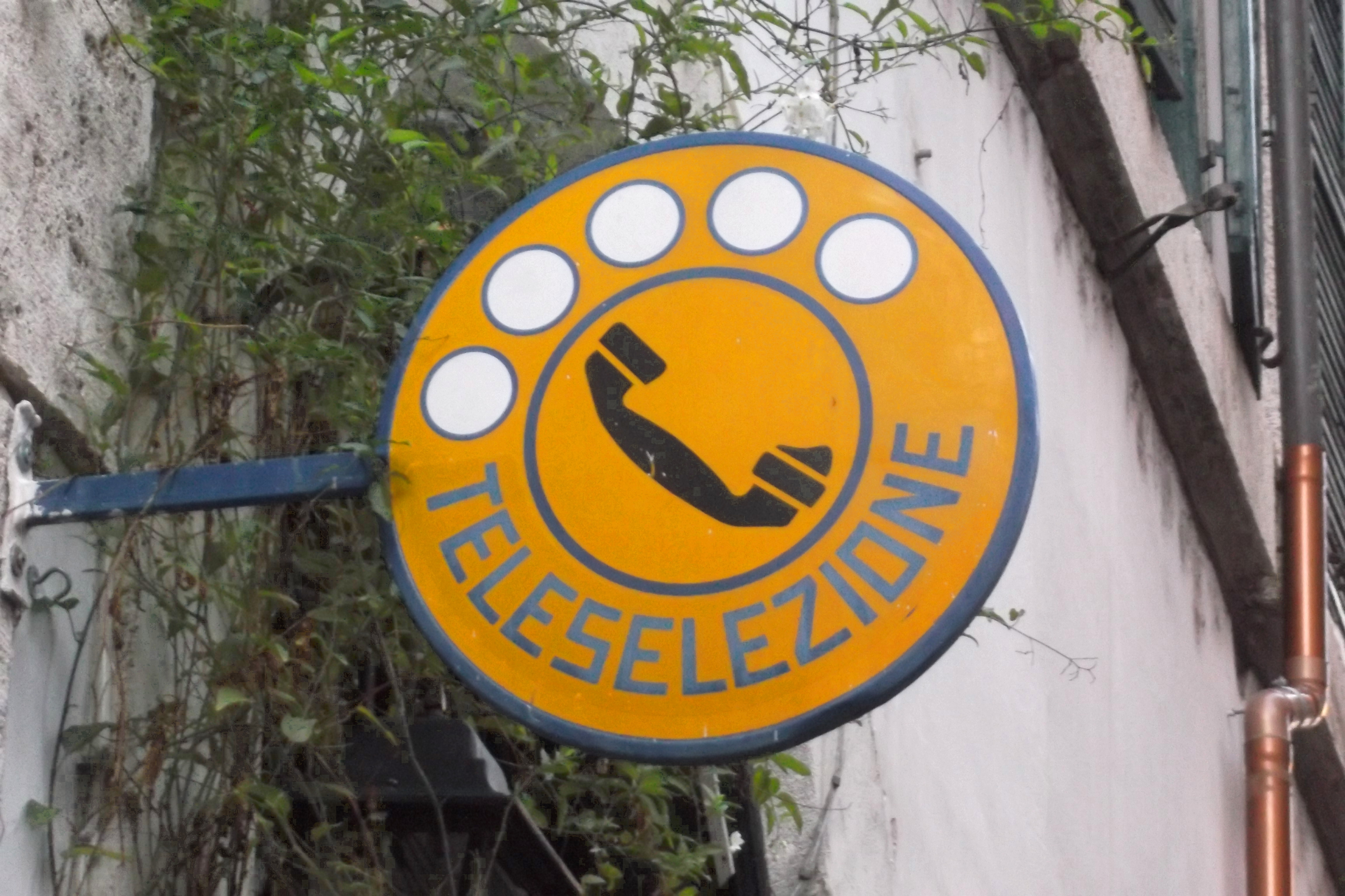 Old sign on a bar in the centre of Rome. It indicated that the store was provided with a landline phone enabled to direct distance dialing. Now that sign stays only as attraction since every phone line in Italy is enabled to long distance dialing outside of the operator area.